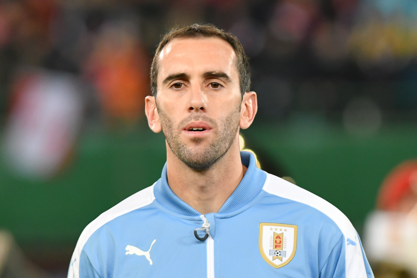 Godín before a friendly international match with Uruguay in 2017.